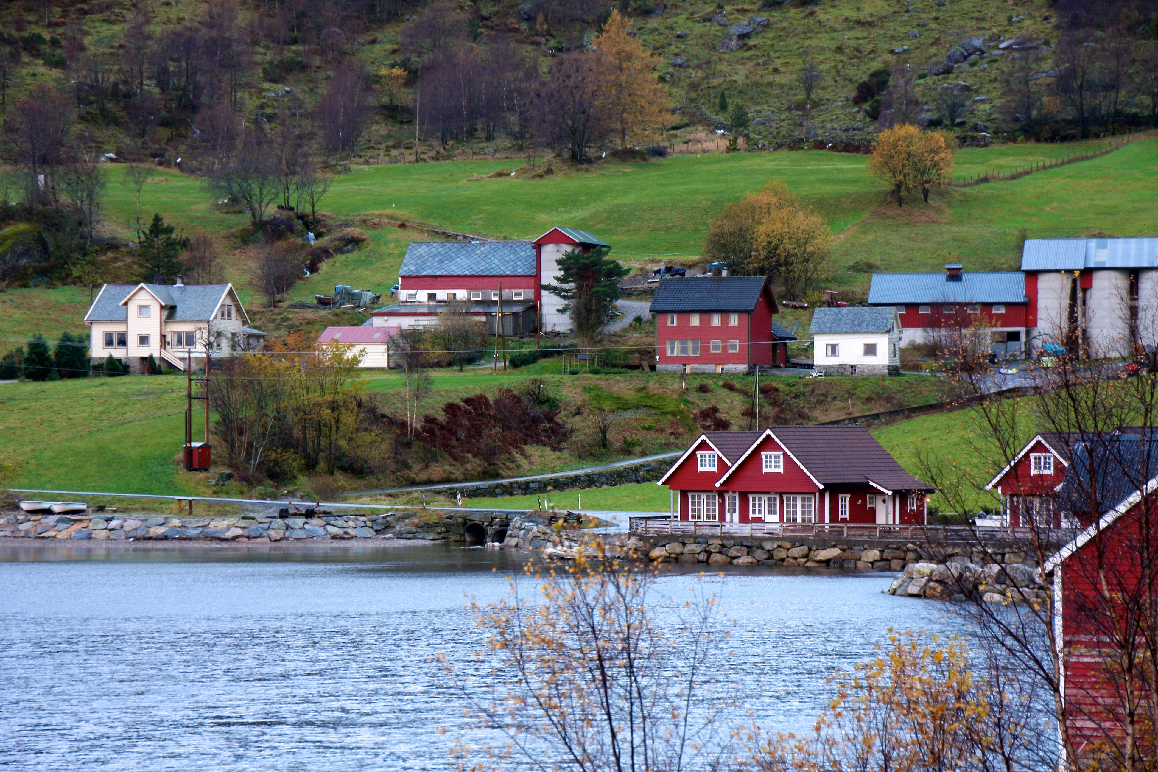 Hjartholm (Gulen) in Gulen municipality, Norway.